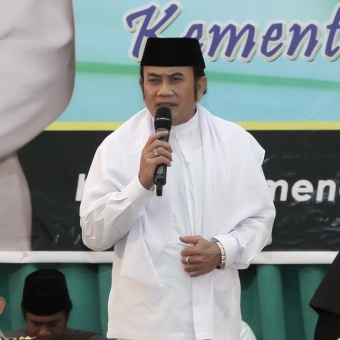 Hajj Rhoma Irama became a lecturer on the commemoration of the Birthday of the Prophet Muhammad SAW held by the South Sumatra Regional Office of Religion in the Palembang Hajj Dormitory Hall, Wednesday (30/12). On that occasion, the King of Dangdut invited the Muslims to strengthen unity.